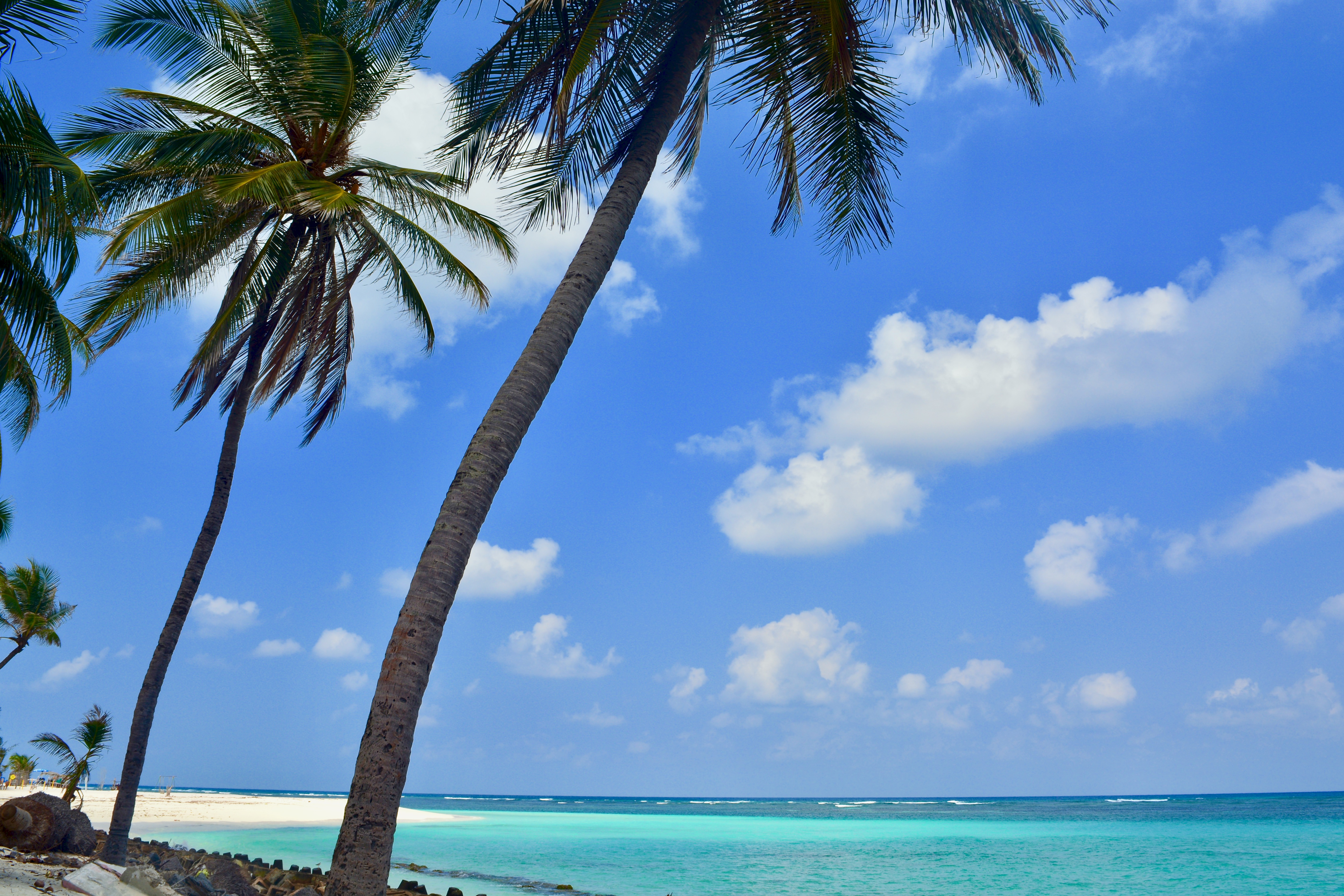 Beautiful turquoise waters, white sands and waving coconut trees on Agatti island.